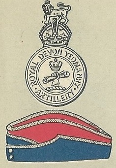 Badge and service cap as worn at the outbreak of World War II